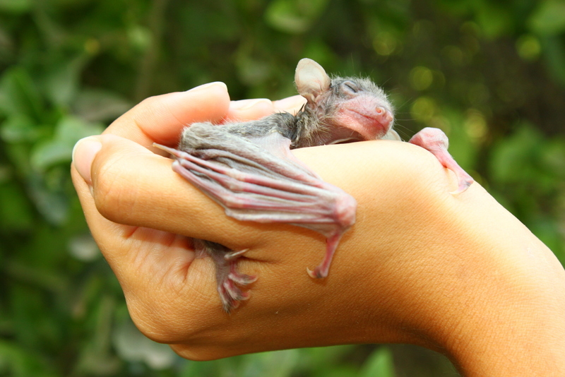 Baby Egyptian fruit bat (Rousettus aegyptiacus)